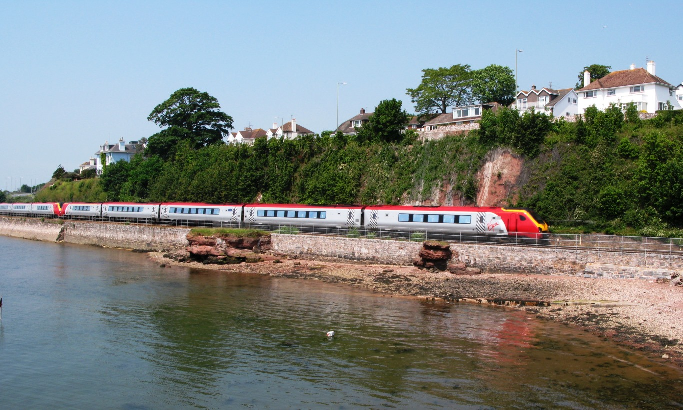 Virgin Cross Country Voyager DMU approaching the Shaldon Bridge on the River teign at Teignmouth, Devon, England.